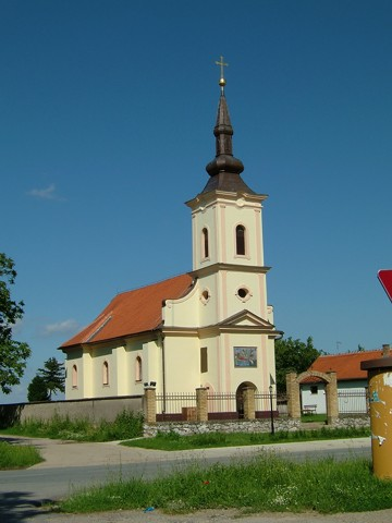 Srijemske Laze crkva